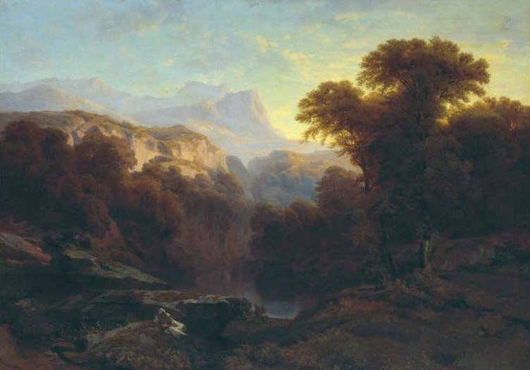 Mikhail Spiridonovich Erassi